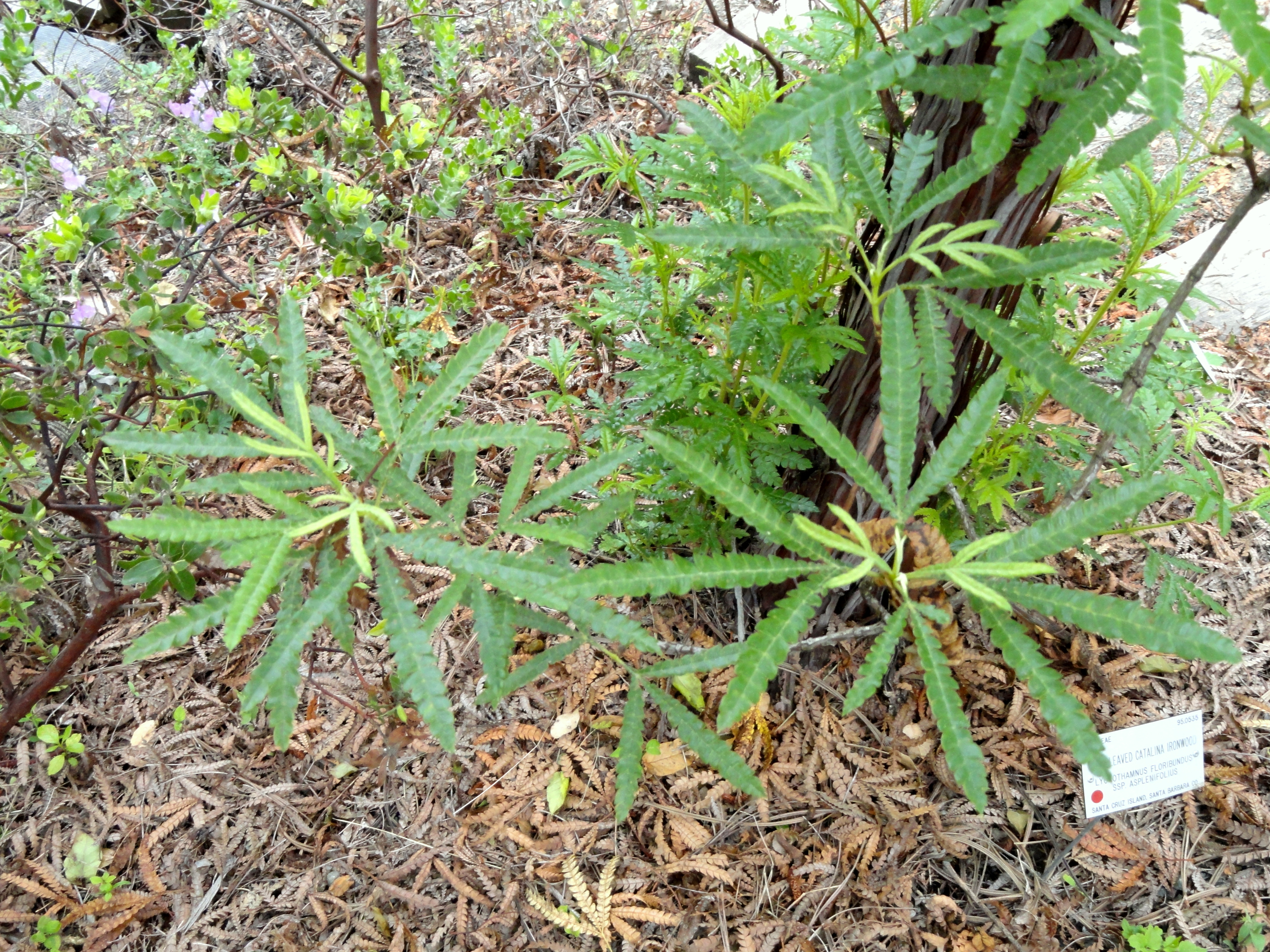 Lyonothamnus floribundus ssp. asplenifolius specimen in the University of California Botanical Garden, Berkeley, California, USA.